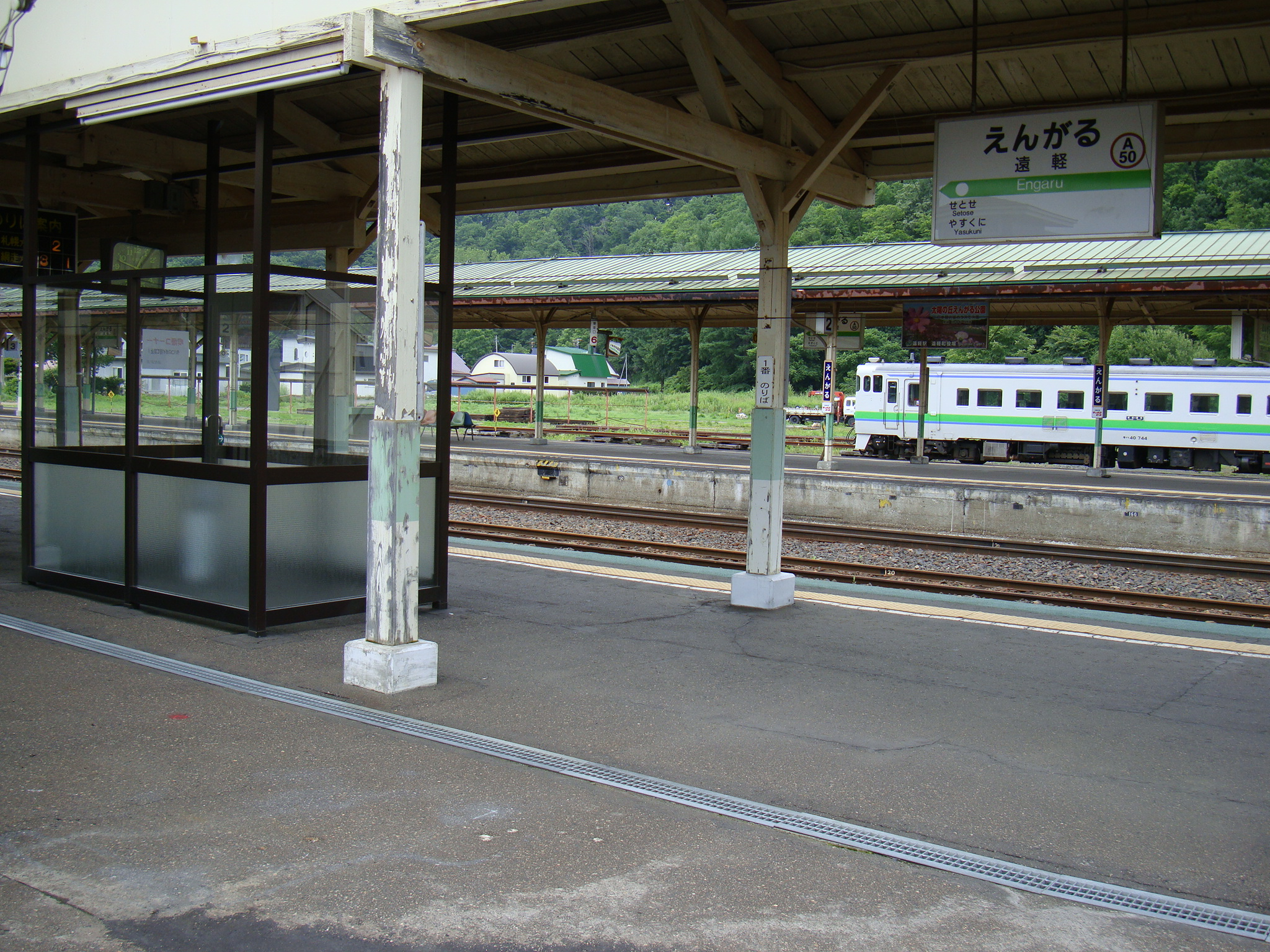 Engaru Station